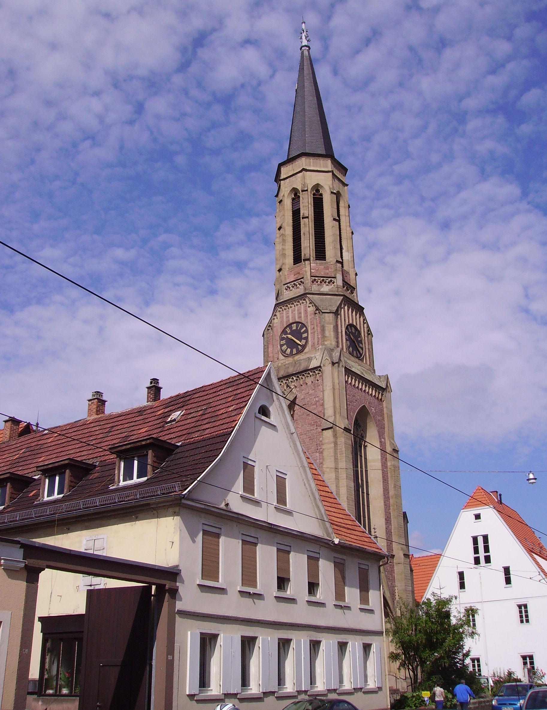 Mannheim-Seckenheim, Germany